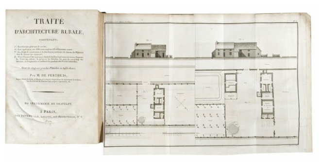 Léon II de Perthuis de Laillevault. Traité d'architecture rurale […] Orné de vingt-six grandes Planches en taille-douce. De l'imprimerie de Crapelet. Paris, Deterville, 1810.